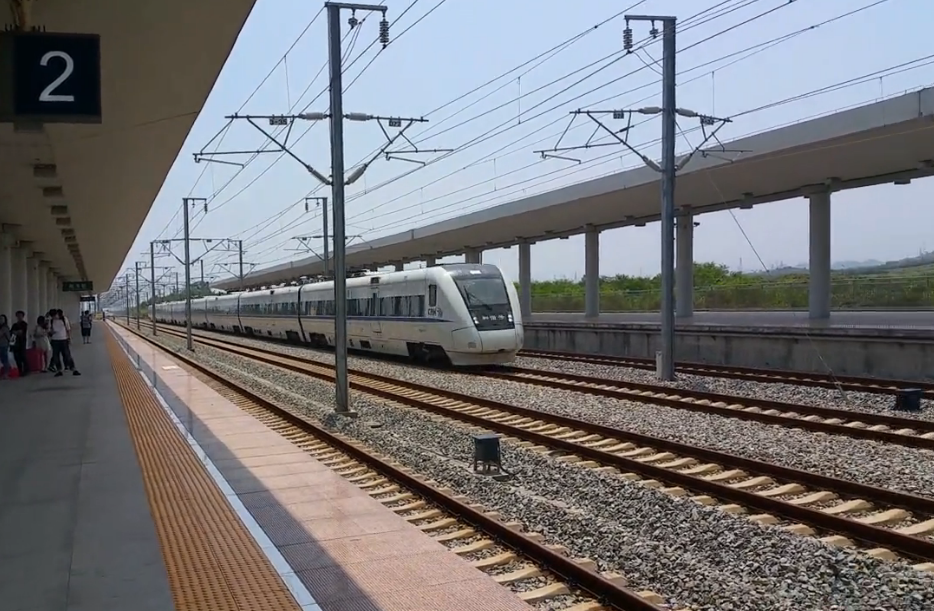 Train D2338 from Shenzhen North to Xiamen, a CRH1A staffed by Guangzhou Railway (Group) Corp., Ltd., quickly passes through Lufeng Railway Station when I was waiting for the former D7403 (now renamed G6385). D2338 schedule at that time: Shenzhen North, Huizhou South, Houmen, Puning, Chaoshan, Zhao'an, Yunxiao, Zhangzhou, Xiamen. This train no longer operates routinely. 中文（中国大陆）: D2338次列车（深圳北→厦门，广铁集团广九客运段，CRH1A）高速通过陆丰站，此时我在等候原D7403（现G6385）。时D2338站次为：深圳北，惠州南，鲘门，普宁，潮汕，诏安，云霄，漳州，厦门。此列车不再日常开行。